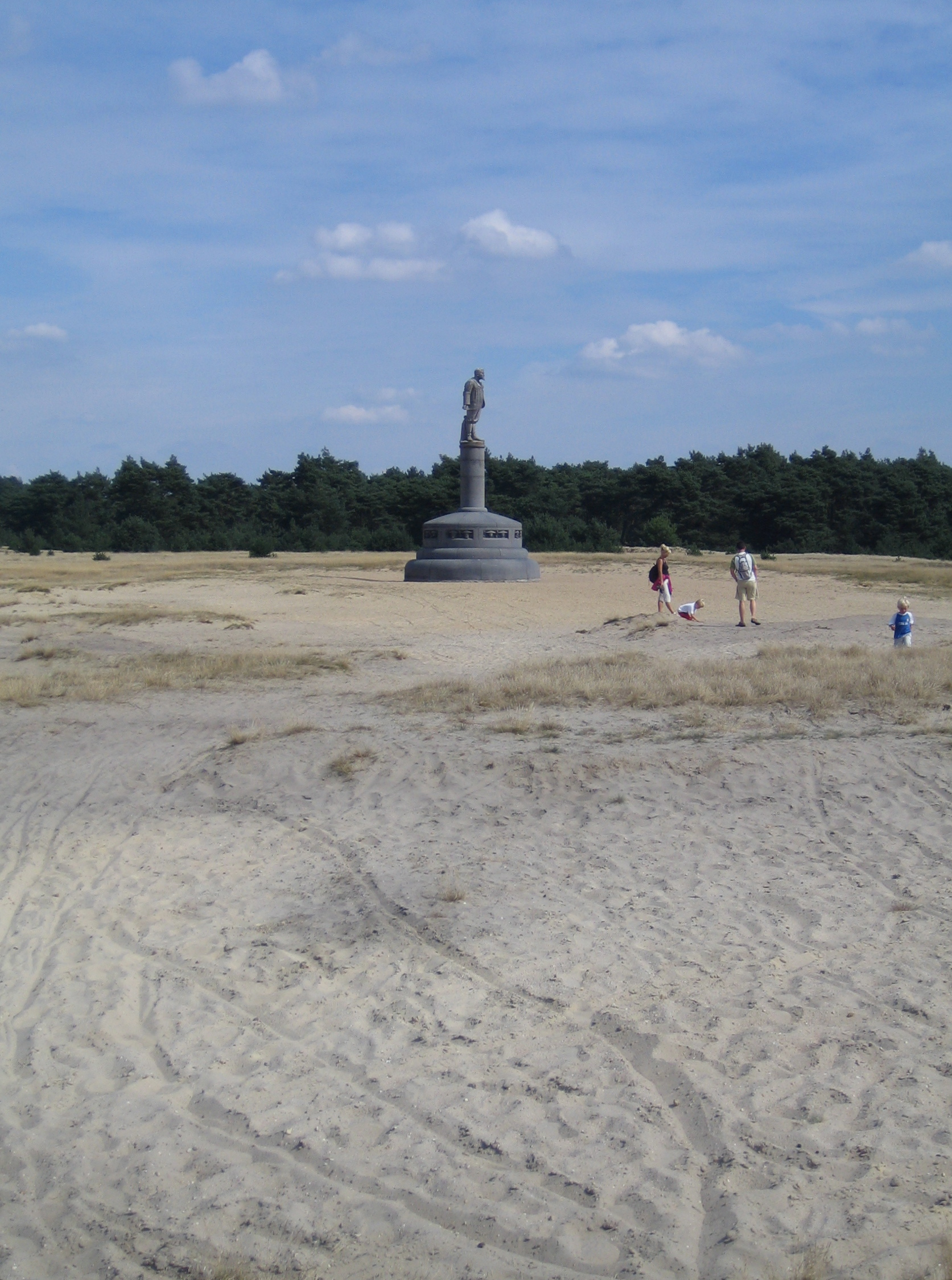 Memorial Christiaan de Wet (1915/1922) by Joseph Mendes da Costa in Nat. park Hoge Veluwe in the Netherlands